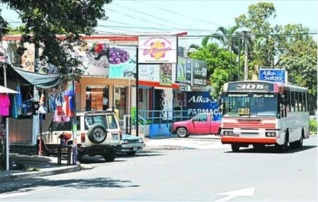 Estas son unas de las calles principales de Ayutuxtepeque, muy cerca de la Alcaldía Municipal.